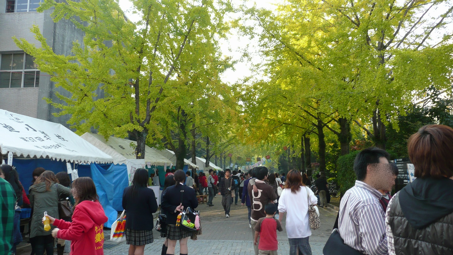 Kagoshima University Festival in 2008 (Kagoshima City, Japan)